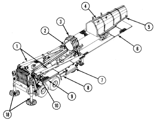 Pershing II M1003 launcher curbside view